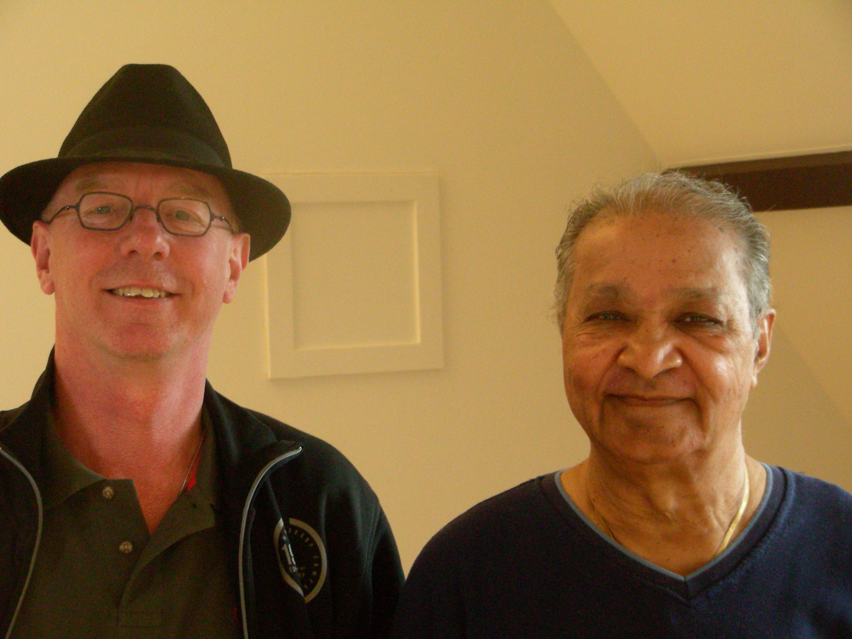 Oscar van Dillen and Hariprasad Chaurasia in Rotterdam